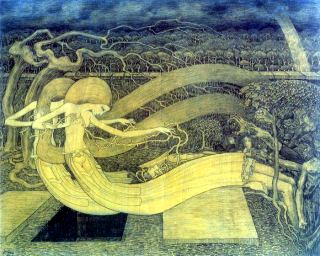 O Grave, Where Is Thy Victory by Jan Toorop (1892)